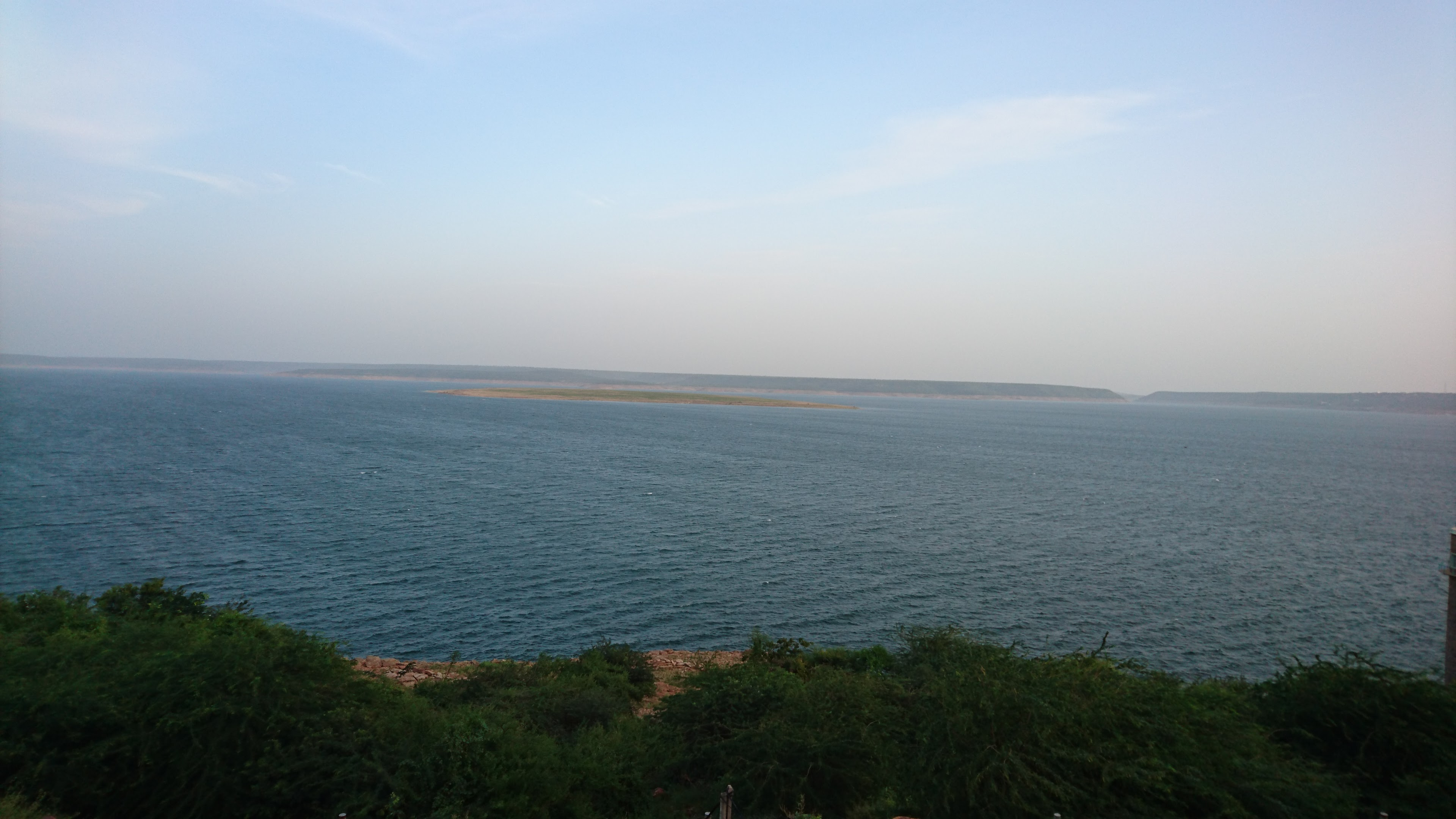 Krishna River at Nagarjuna Sagar